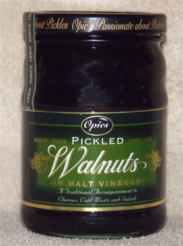 Opie Brand pickled walnuts, taken by Geotek, February 2007